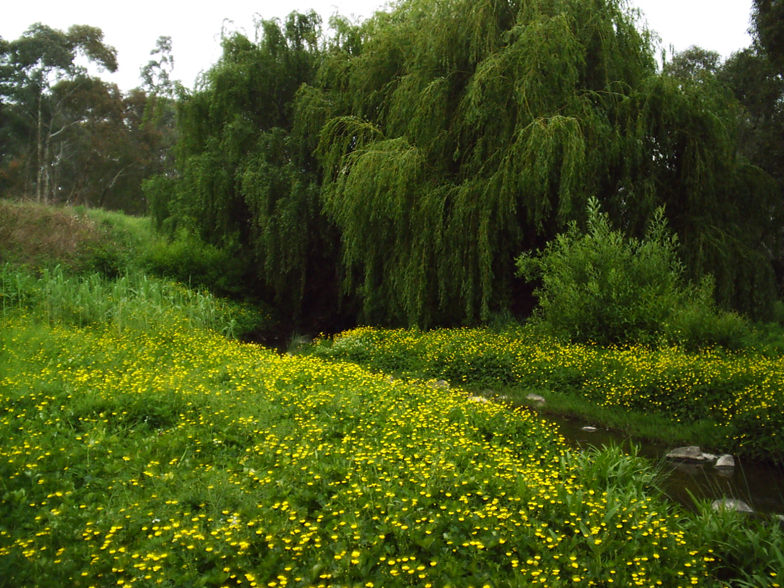 Picture of the Merri Creek, Victoria, Australia. This is a view of the Merri Creek in North Coburg, between the Coburg Lake and Sports Centre.